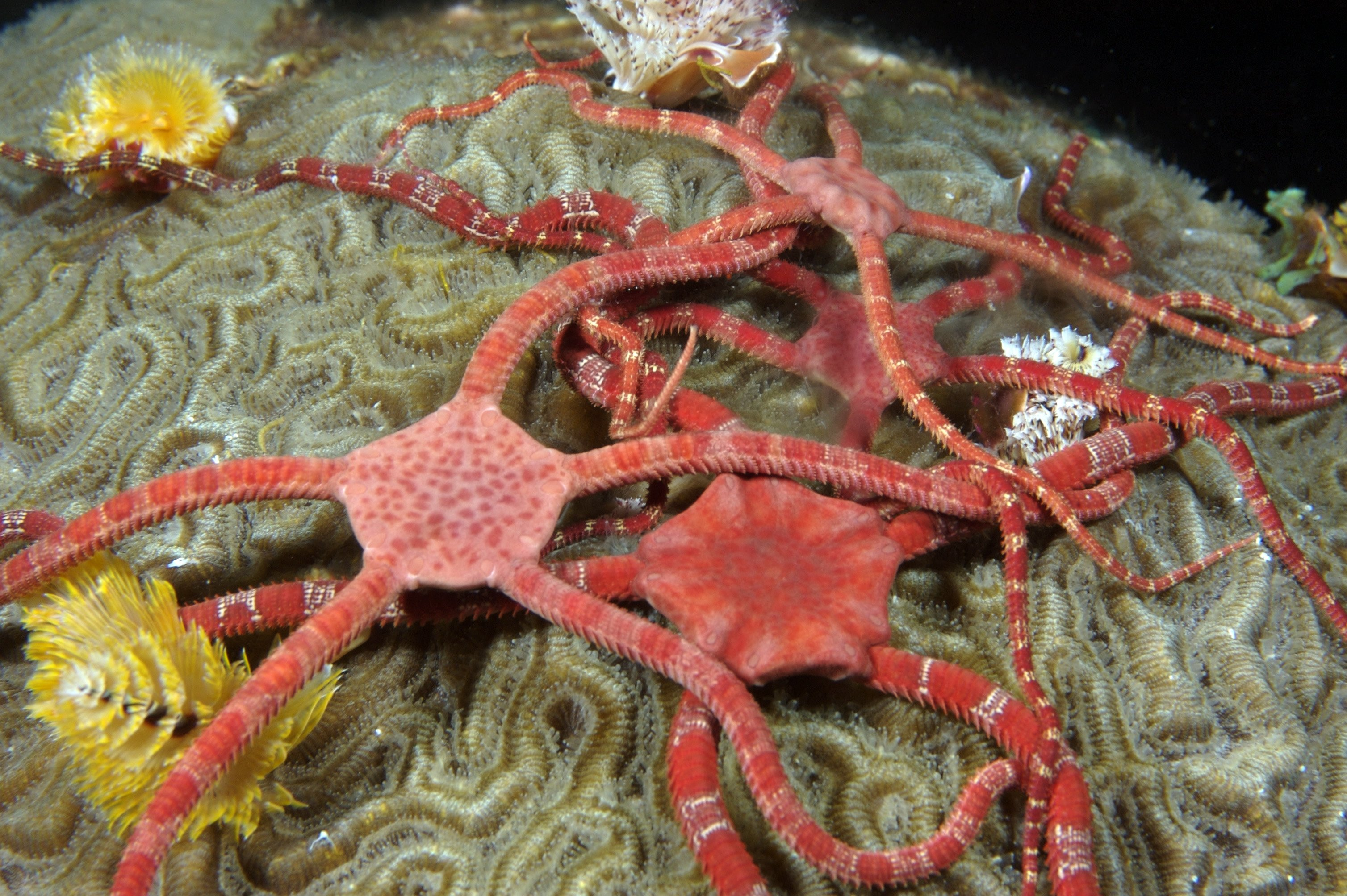 A cluster of male ruby brittle stars (Ophioderma rubicundum) atop a brain coral. These males will soon release sperm during a night-time spawning event. Gulf of Mexico.